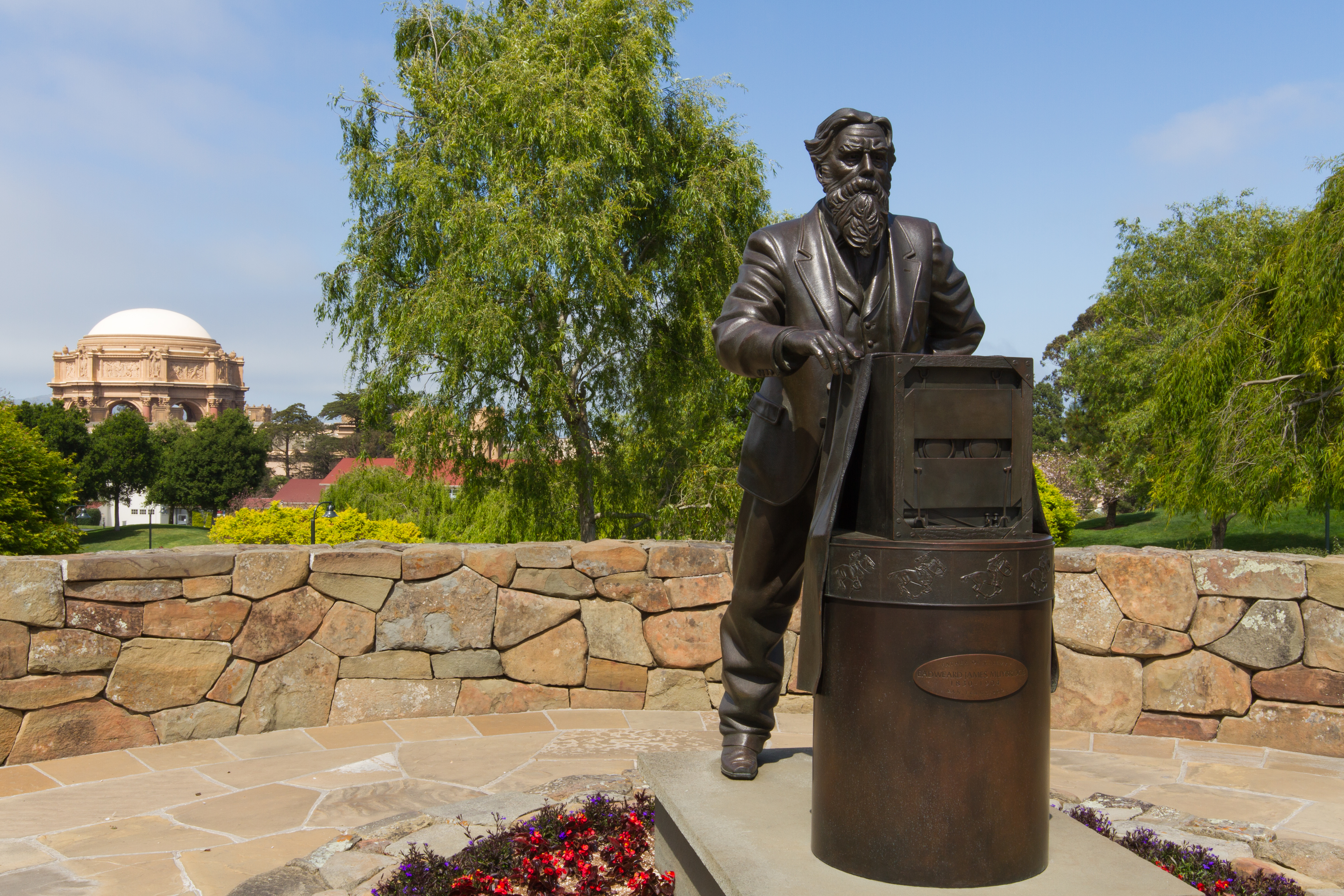 Statue of Eadweard Muybridge at the Letterman Digital Arts Center in the Presidio of San Francisco. In the background on the left the Palace of Fine Arts.